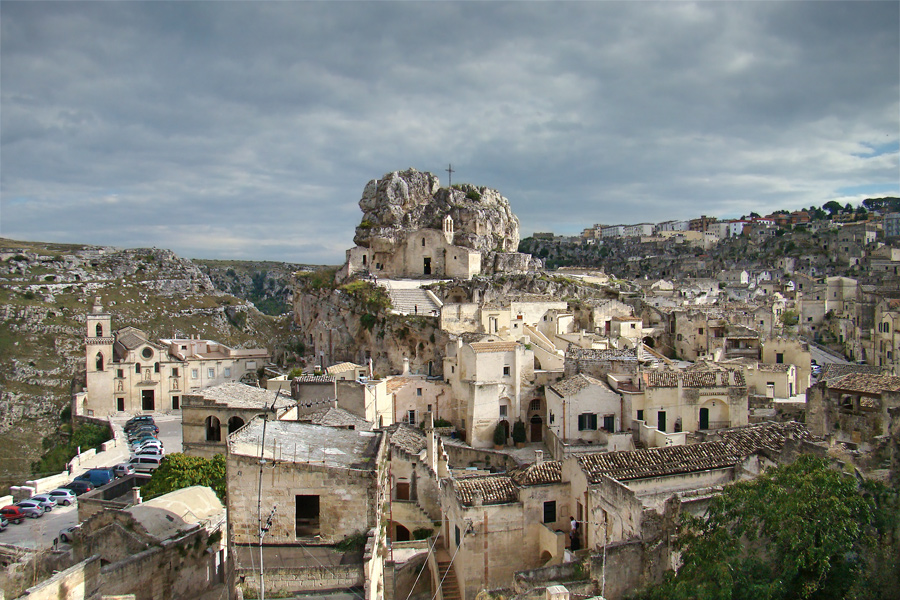 Matera, Basilicata, Italy. The Sasso Caveoso looking east. The church of Madonna de Idris is on top of the rock in the centre, the church of San Pietro Caveoso on the edge of the cliff on the left.